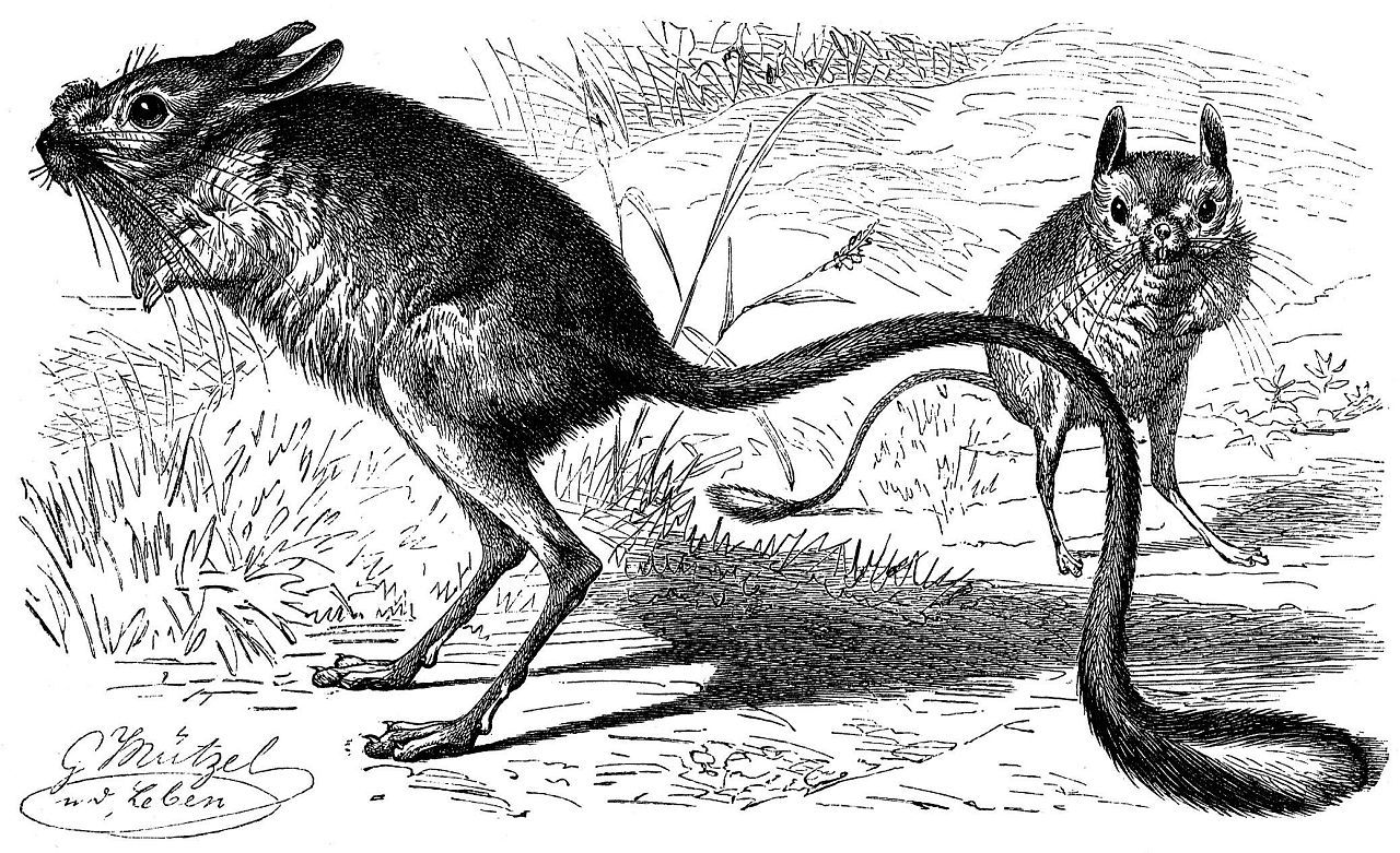 drawing of Great Jerboas (Allactaga major)